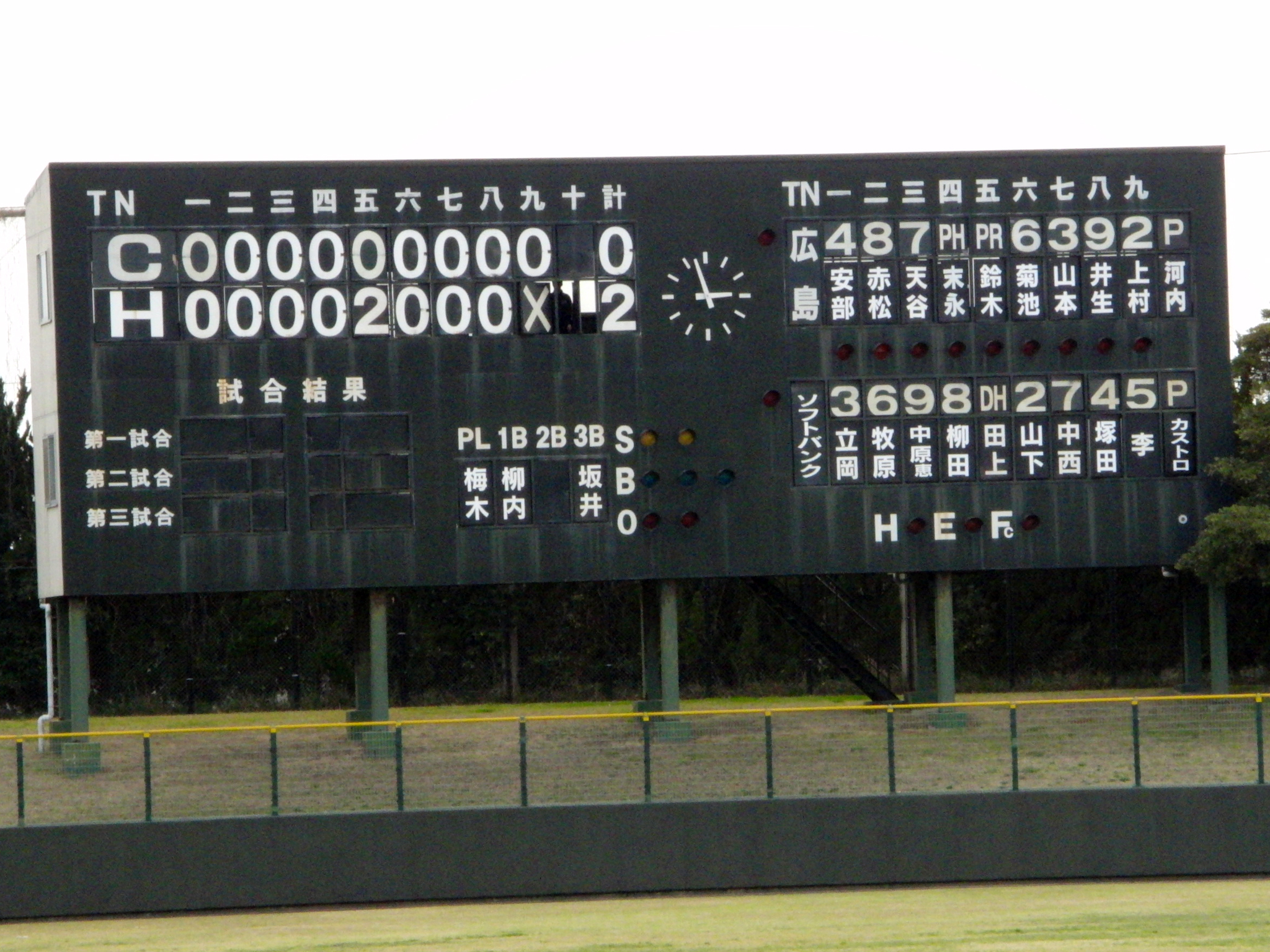 Scoreboard of Gannosu Stadium